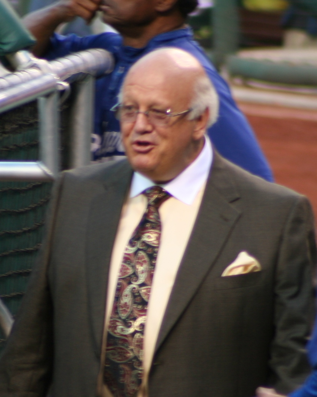 ESPN Baseball broadcaster Jon Miller in 2008. Photo courtesy of pvsbond, via Flickr.